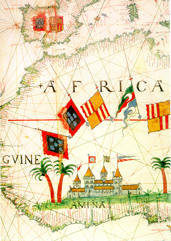 detail of an unidentified historical map, showing parts of northwestern Africa and the Iberian peninsula